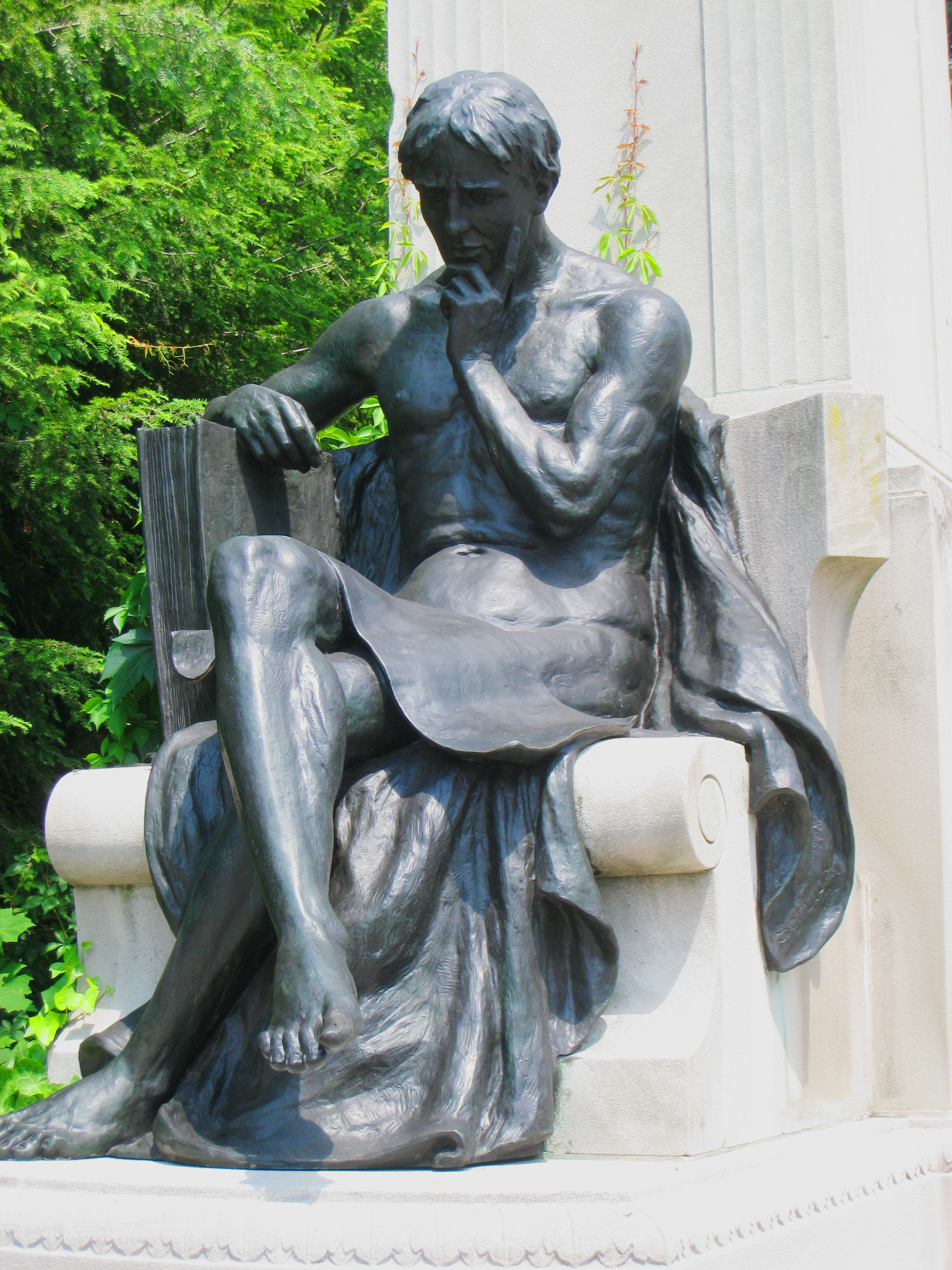 Johns Hopkins Monument, Johns Hopkins University, Baltimore, Maryland, USA. Sculpted by Hans Schuler, 1935.